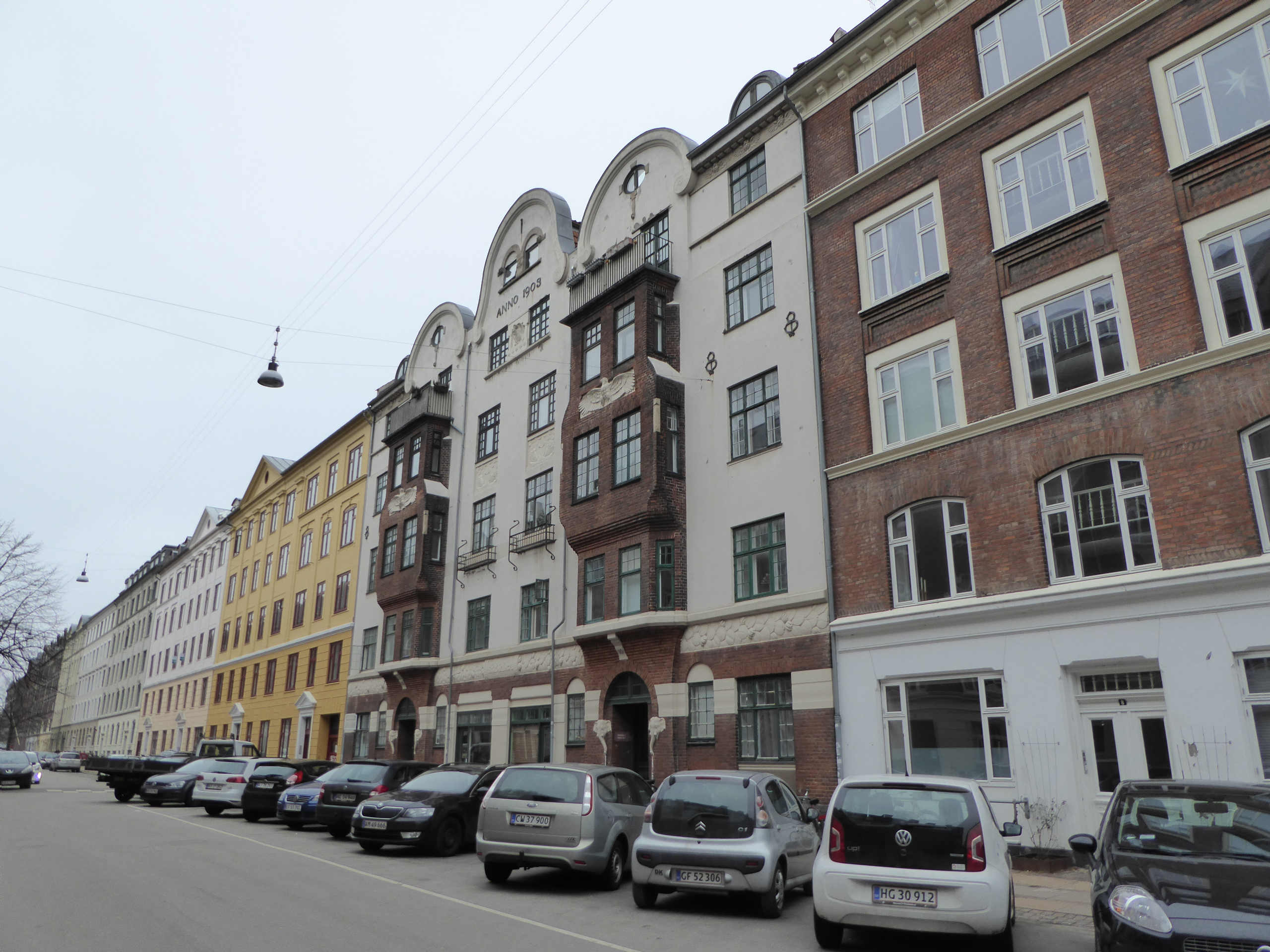 The street Husumgade in Nørrebro in Copenhagen.